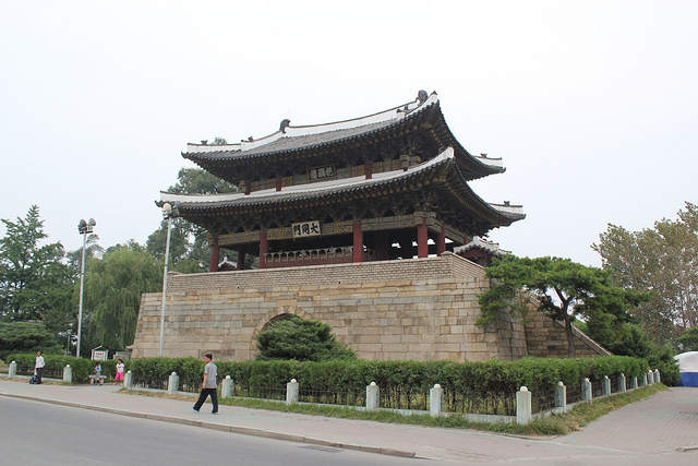 The Taedong Gate in Pyongyang North Korea